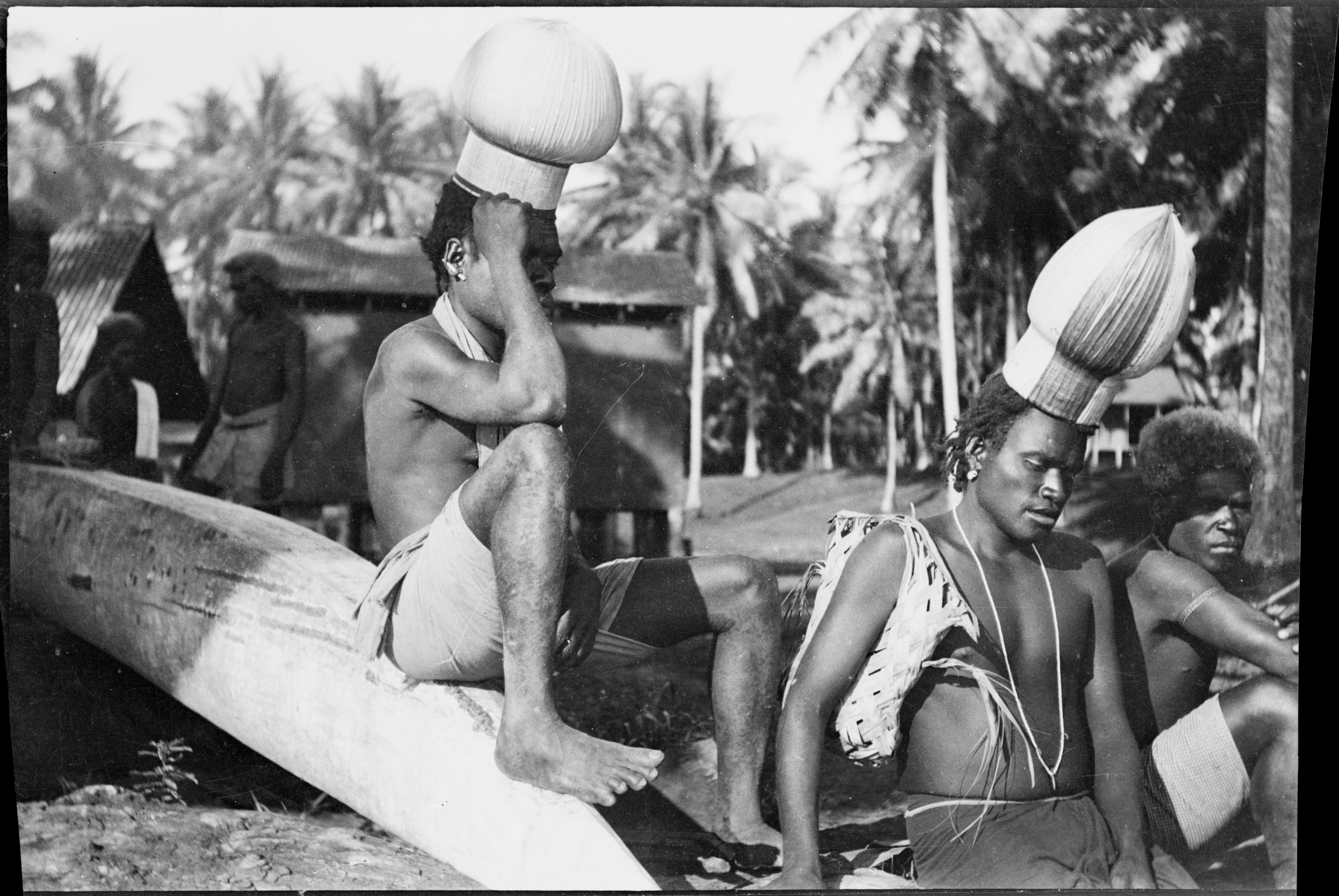 Two men wearing Ombu (upe) ceremonial initiation hats, Soraken, Bougainville Island